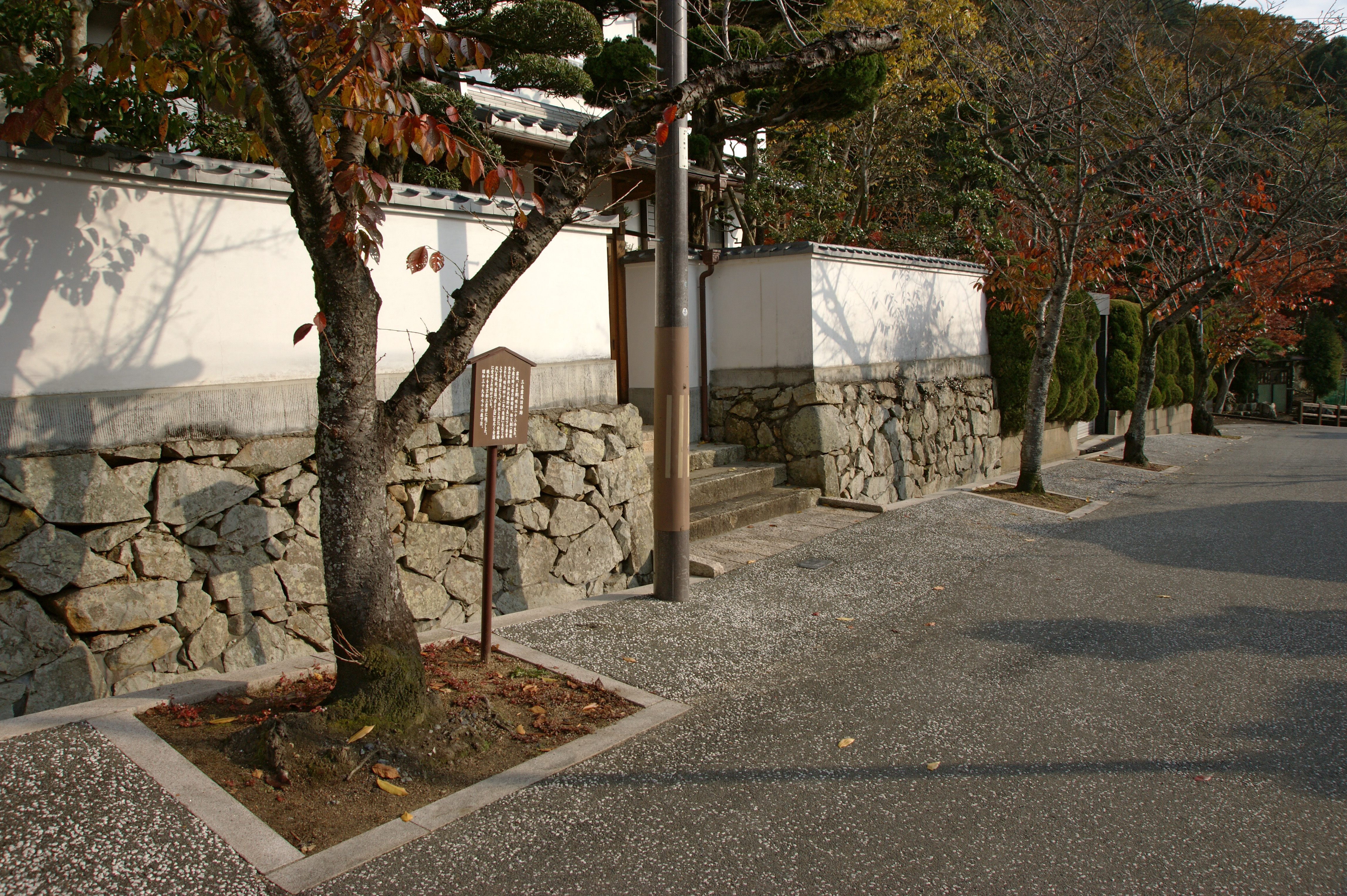 Rofu Miki's birthplace, Tatsuno, Hyogo prefecture, Japan